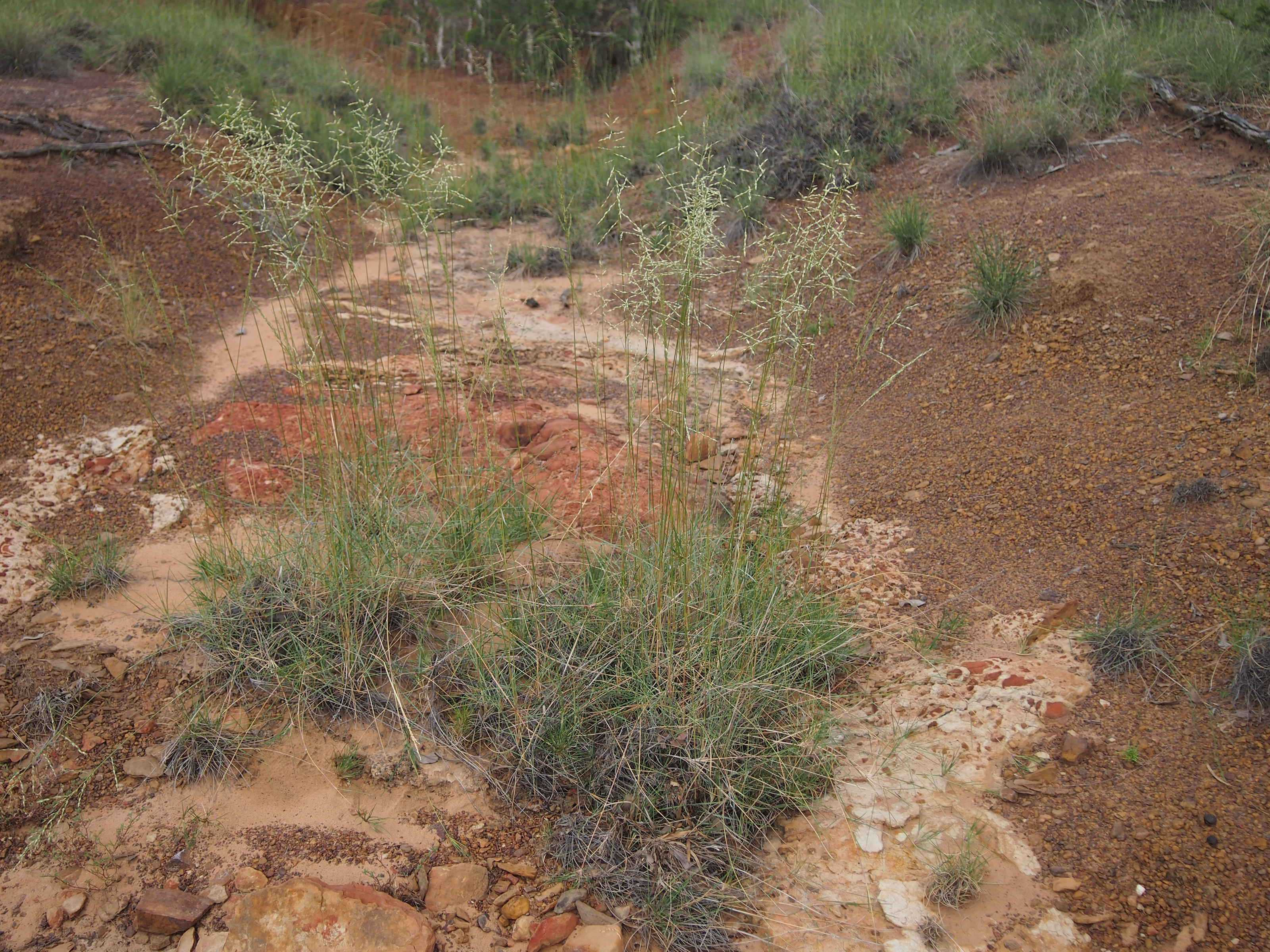 Triodia triaristata